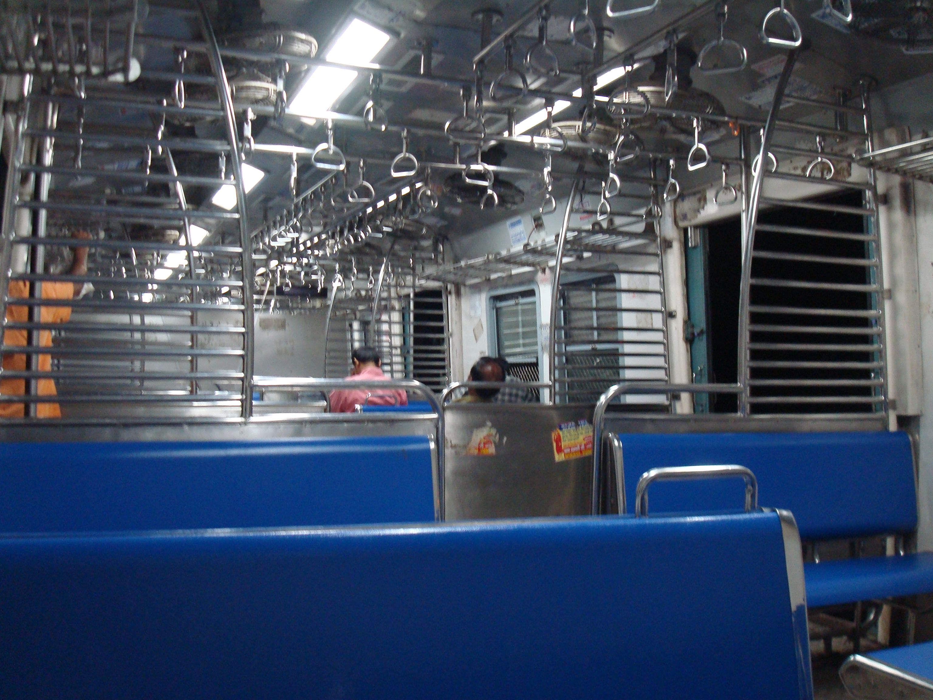 A rare empty view of a local train in Mumbai. The photo was snapped at 6am (IST) when the rush is comparatively less.